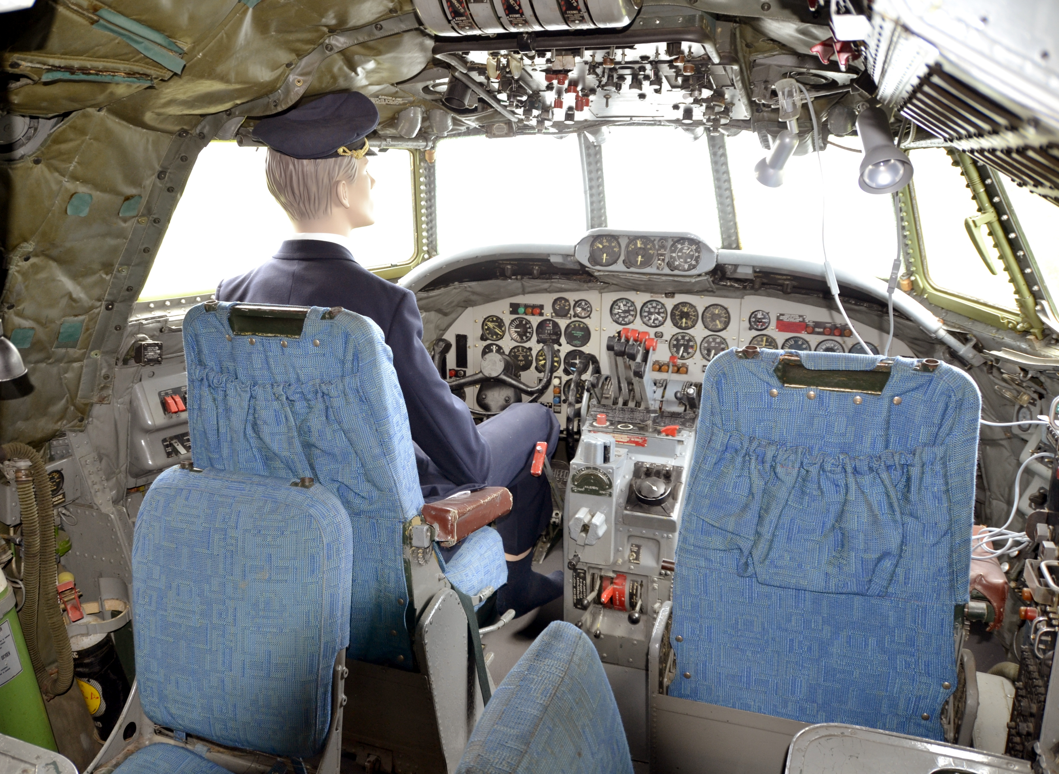 The cockpit of a Lockheed L-1049 G Super Constellation (D-ALEM) at the Munich Airport Visitors Park.